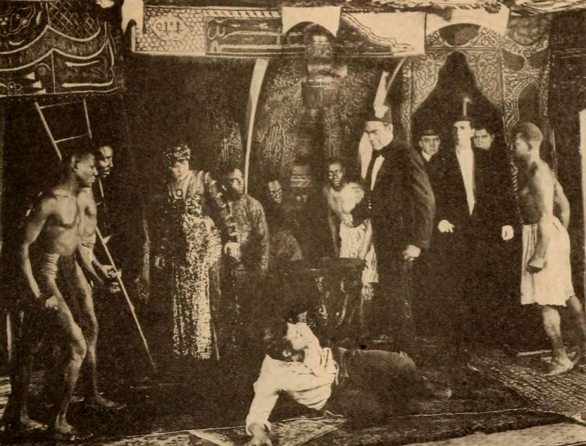 Still from the American film serial Bride 13 (1920), on page 93 of the August 14, 1920 Exhibitors Herald.